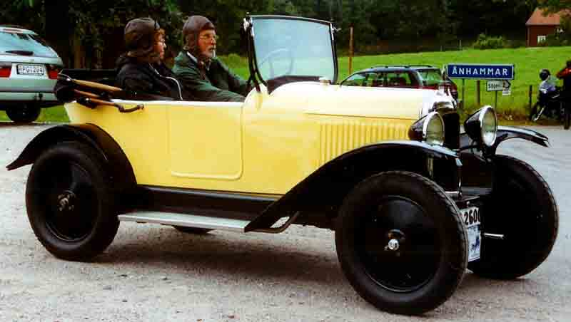 Citroen 5 CV Type C2 Torpedo 1923. Owner: Mr Roland Nord, Molkom, Sweden